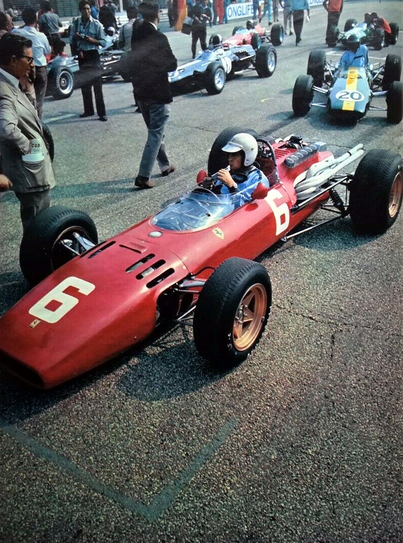 Monza (Lombardy, Italy), Autodromo Nazionale, September 4, 1966. Italian Formula One driver Ludovico Scarfiotti inside his Ferrari 312 F1-66 before the start of 1966 Italian Grand Prix.